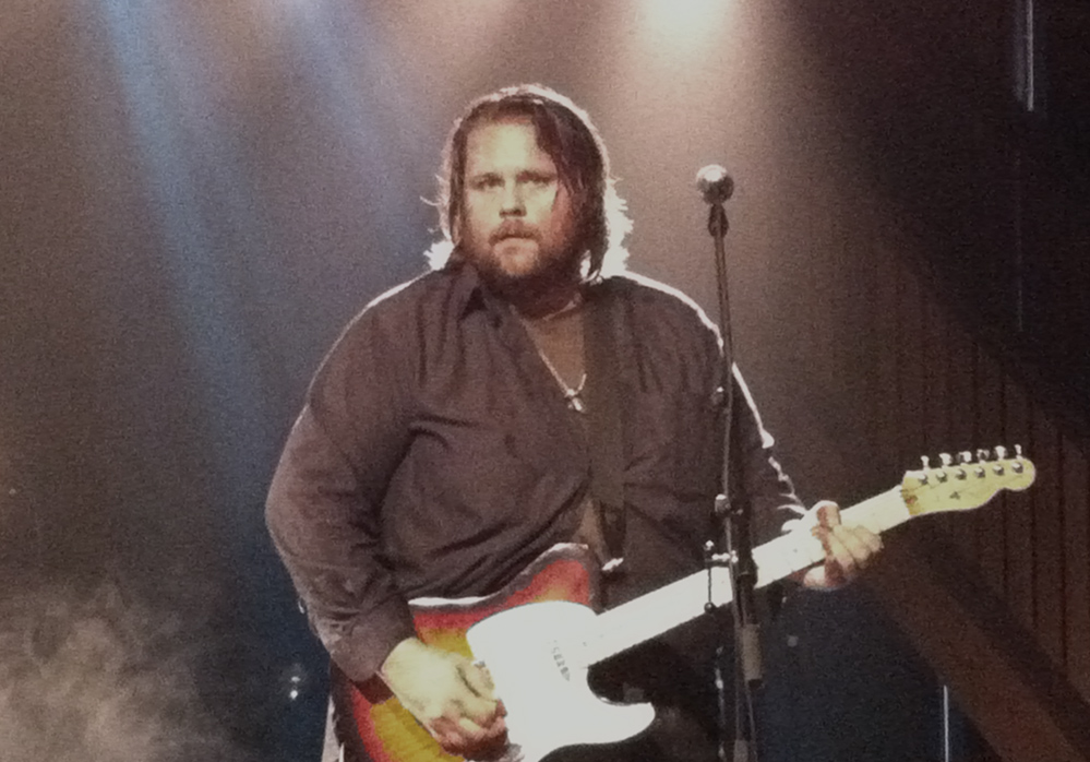 Henry Chapman (Magnus Ericsson) in concert with Popundret at Trästockfestivalen 2011 (reunion concert)